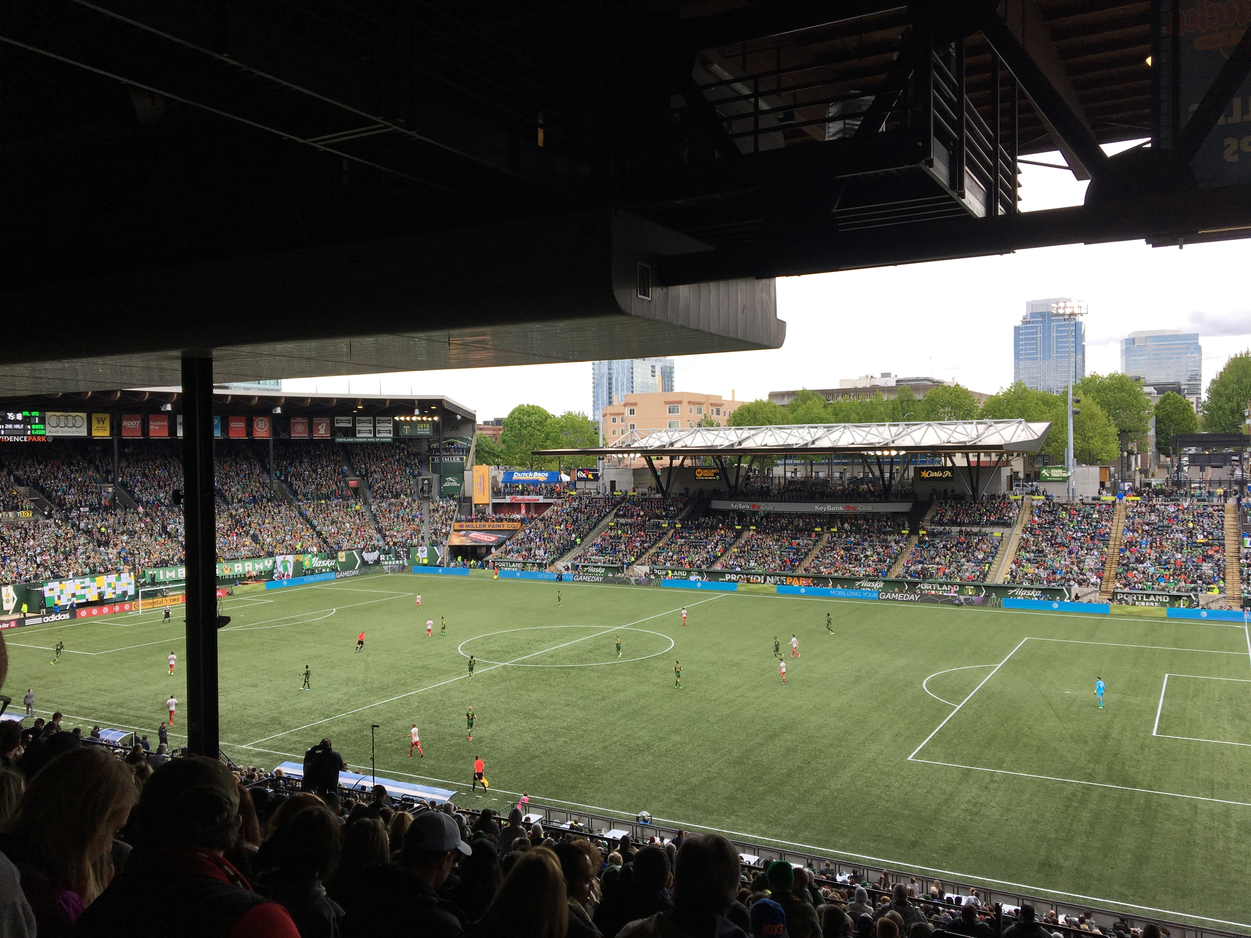 Portland Timbers vs Atlanta United FC May 14, 2017 at Providence Park